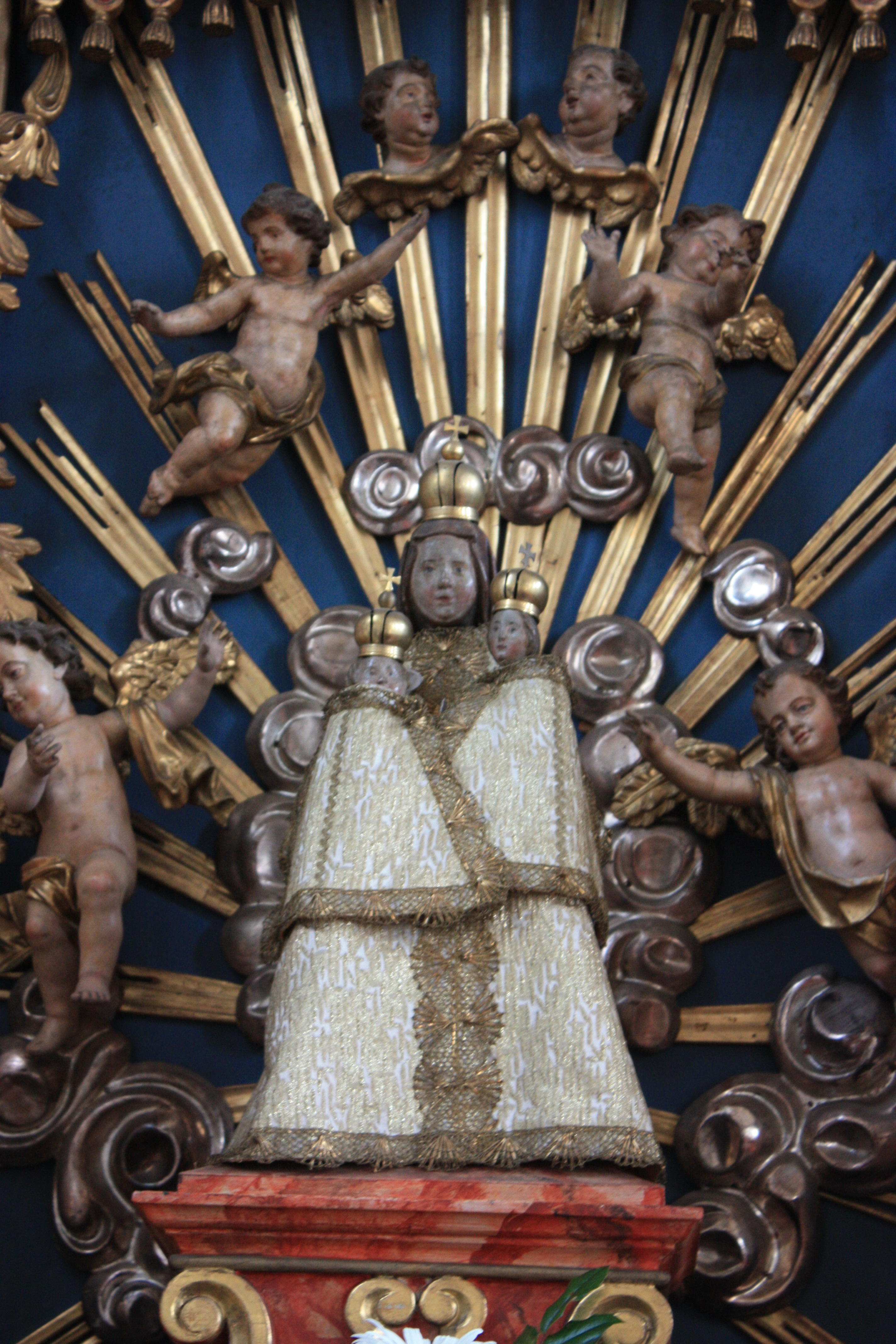 Parish church "Assumption of Mary" - Side altar - Maonna Locality: Maria Rojach Community:Sankt Andrä